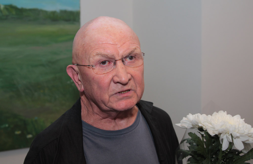 Leonid Sokov - Russian artist. Moscow, 2012